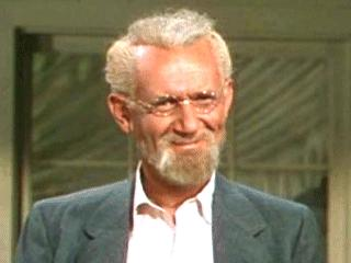 Ludwig Donath in "Jolson Sings Again", as Cantor Yoelson